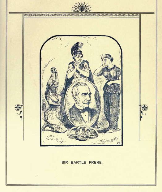 Sir Henry Bartle Frere. British Governor of southern Africa and invader of Zululand.